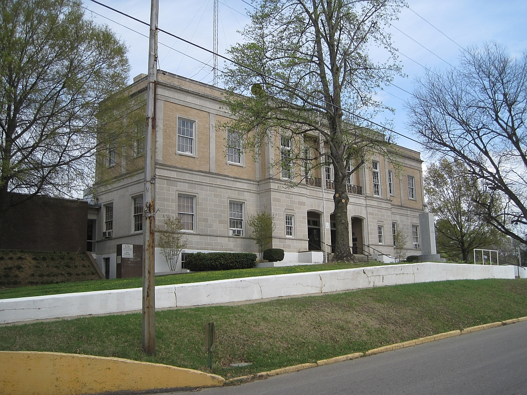 Marianna in Lee County, Arkansas Lee County court house